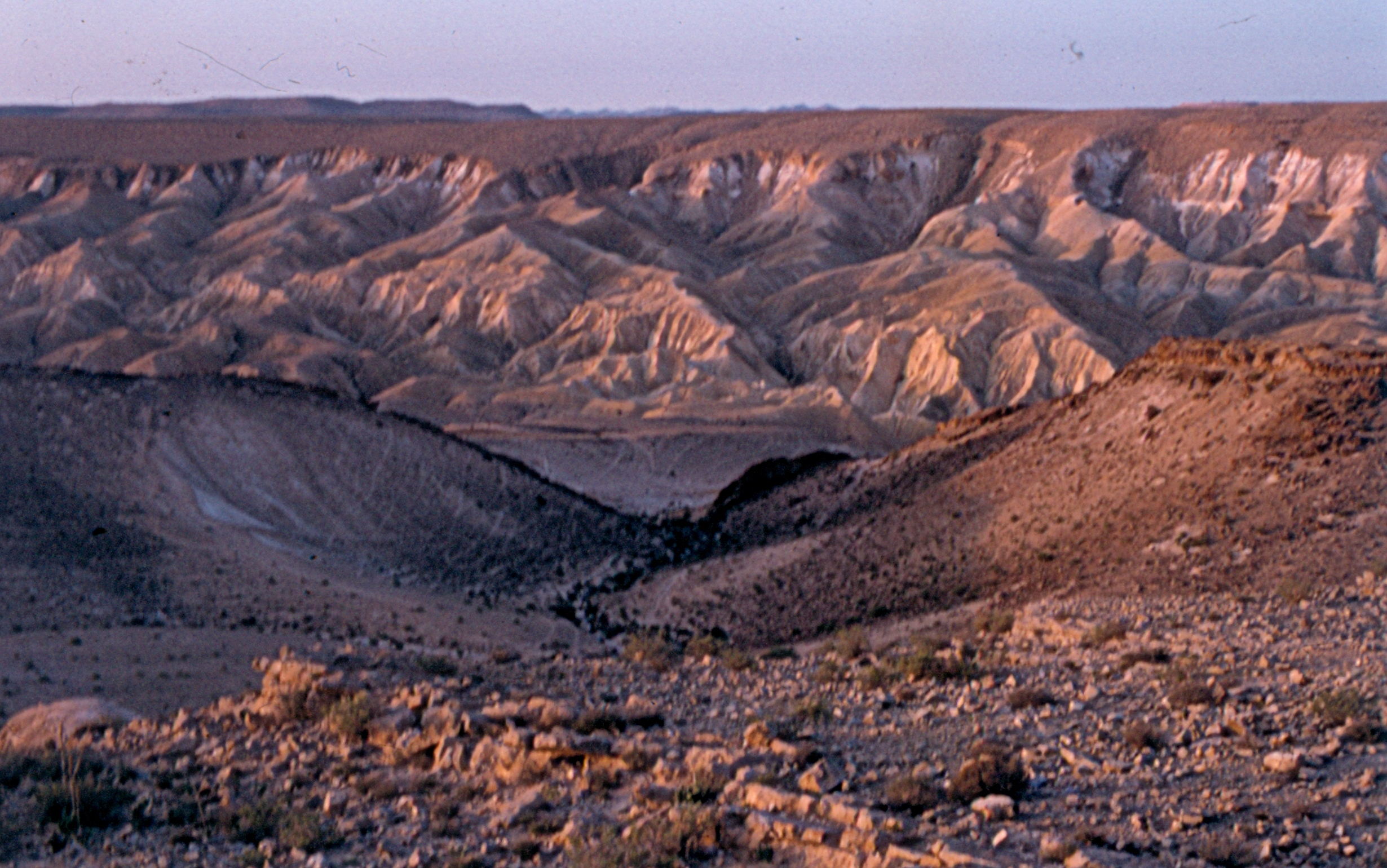 Panorama_from_the_road_to_Sinai